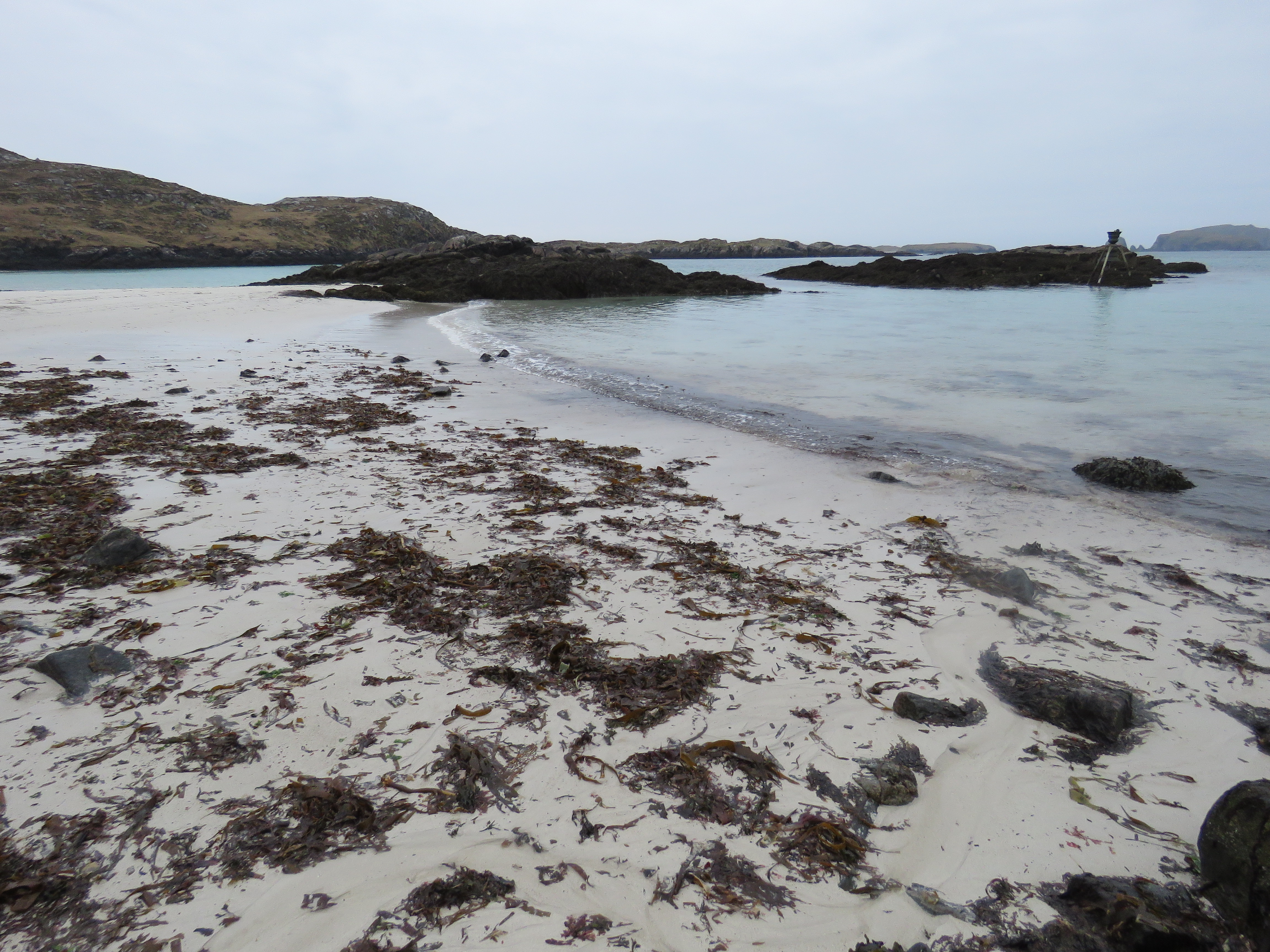 Bosta Beach, Great Bernera, Outer Hebrides, showing Time & Tide Bell